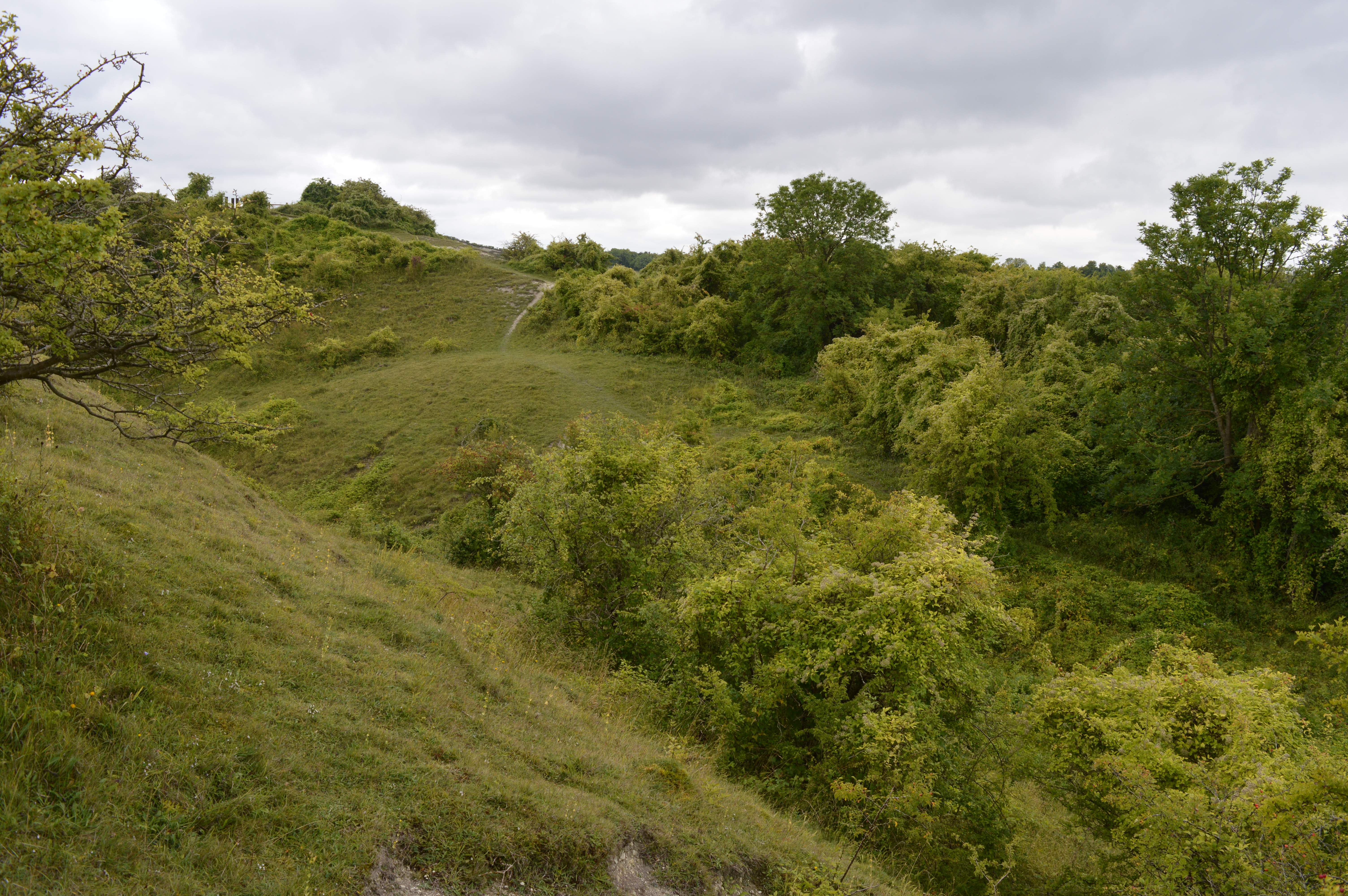 Totternhoe Chalk Quarry, a Site of Special Scientific Interest in Totternoe, Bedfordshire and part of the Totternhoe nature reserve, managed by the Wildlife Trust for Bedfordshire, Cambridgeshire and Northamptonshire